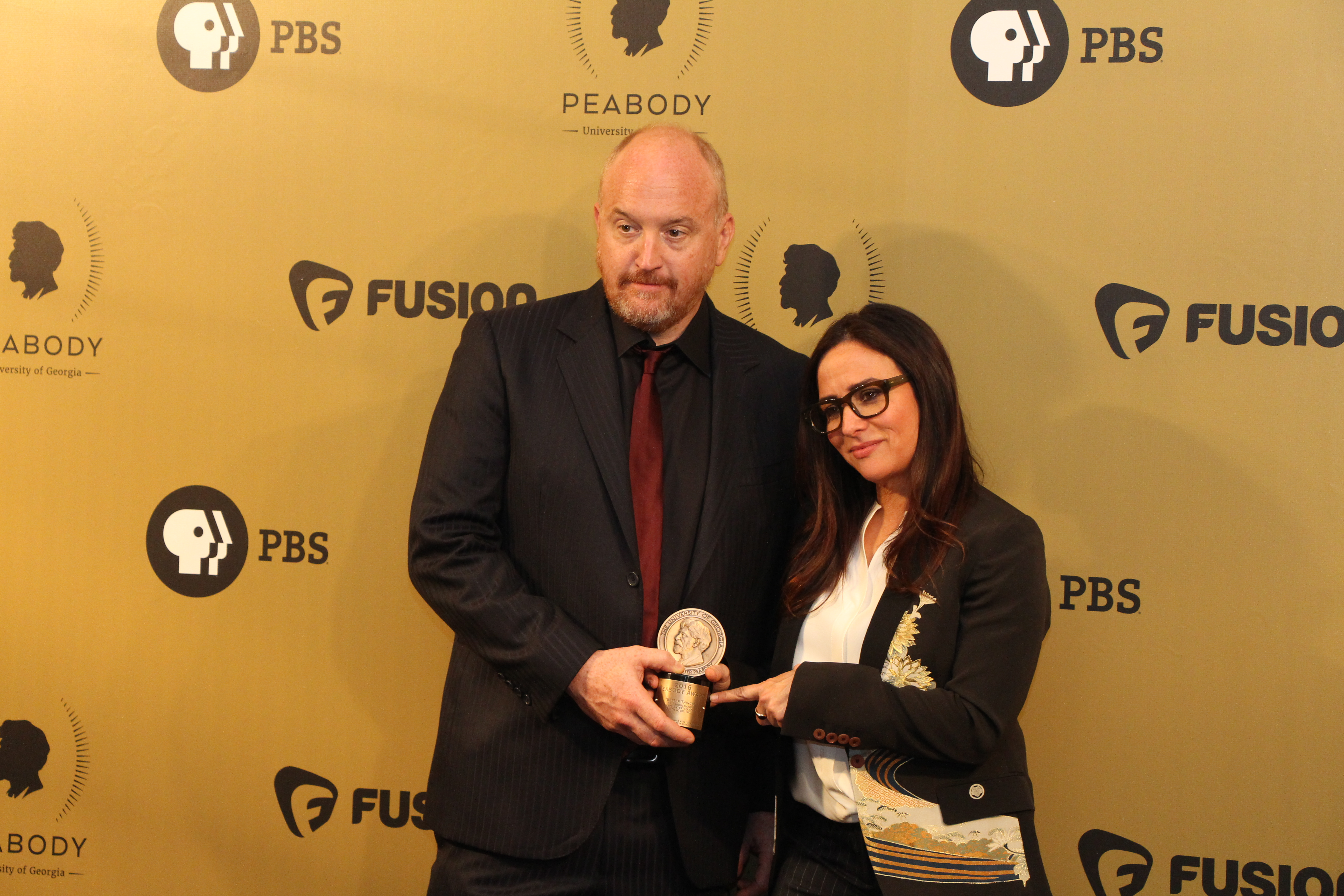 NEW YORK, NY - MAY 20: Louis CK and Pamela Adlon from Better Things pose with an award during The 76th Annual Peabody Awards Ceremony at Cipriani, Wall Street on May 20, 2017 in New York City.